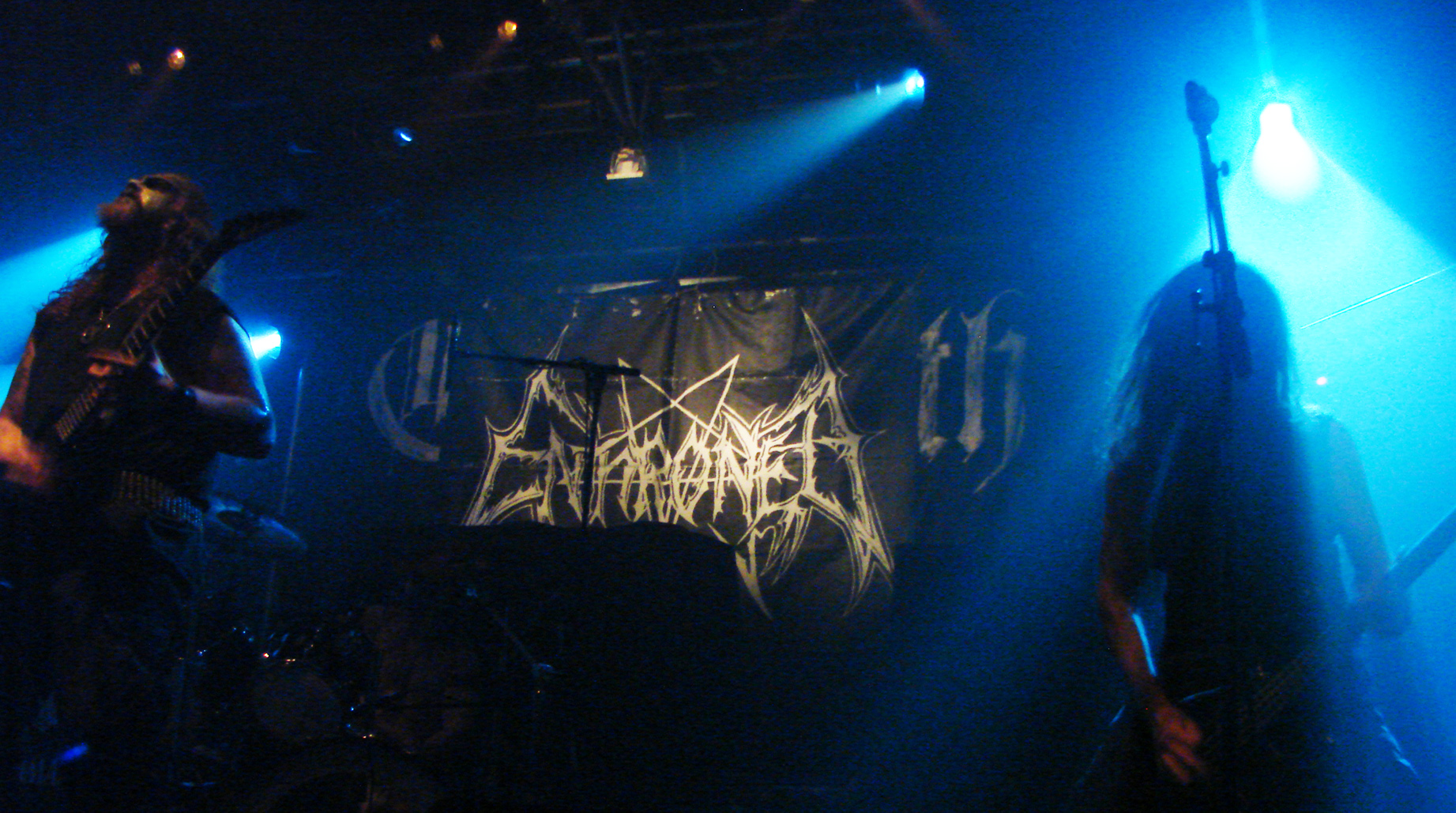 Enthroned during their concert in La Locomotive, Paris, 20/11/07.